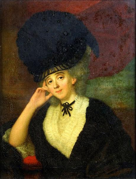 Mrs. Elizabeth Draper , (née Sclater ) 1744 - 1778 born on 5 April 1744, at Angengo, Malabar, a British trading post in Travancore country on the Arabian Sea coast. Portrait by John Raphael Smith. guess painting at 1770